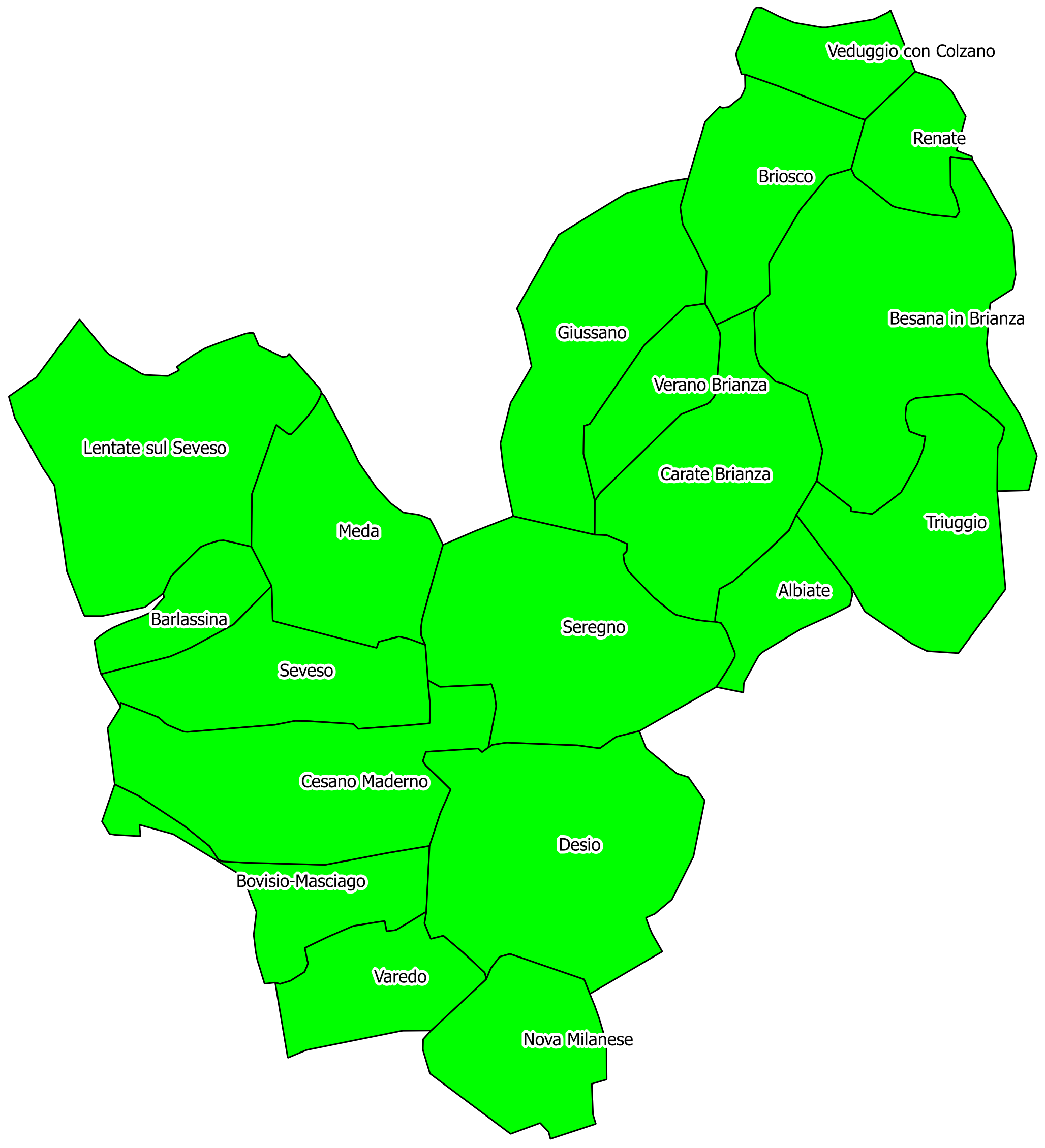 made with qgis